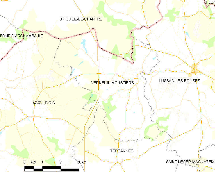 Map of French municipality Verneuil-Moustiers